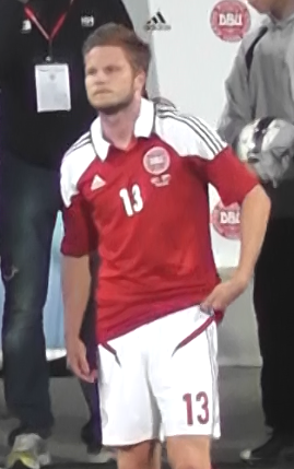 Lasse Nielsen on his Debut for Denmark